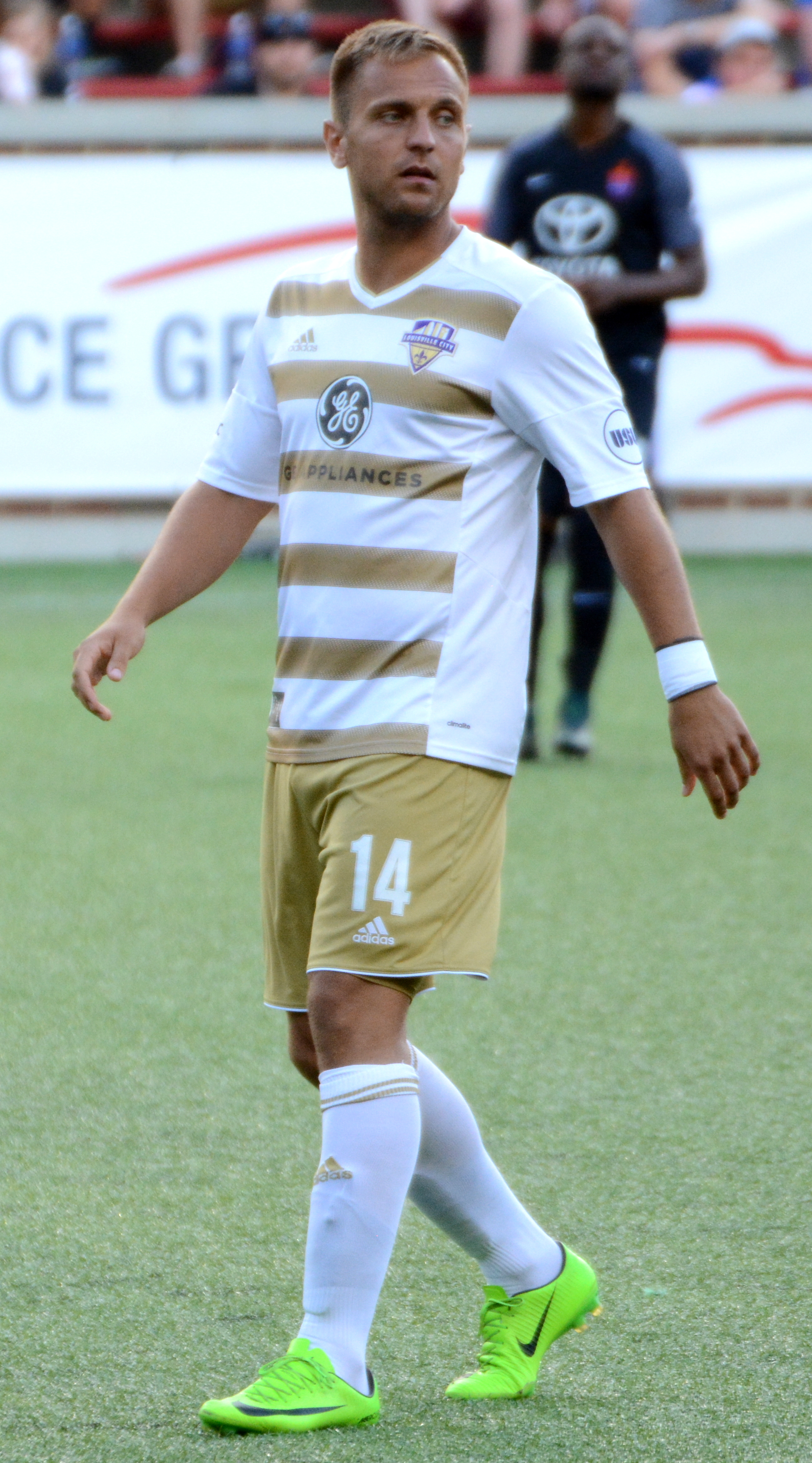 Ilija Ilic Taken at a Lamar Hunt U.S. Open Cup match between FC Cincinnati and Louisville City FC at Nippert Stadium in Cincinnati, Ohio on May 31, 2017.